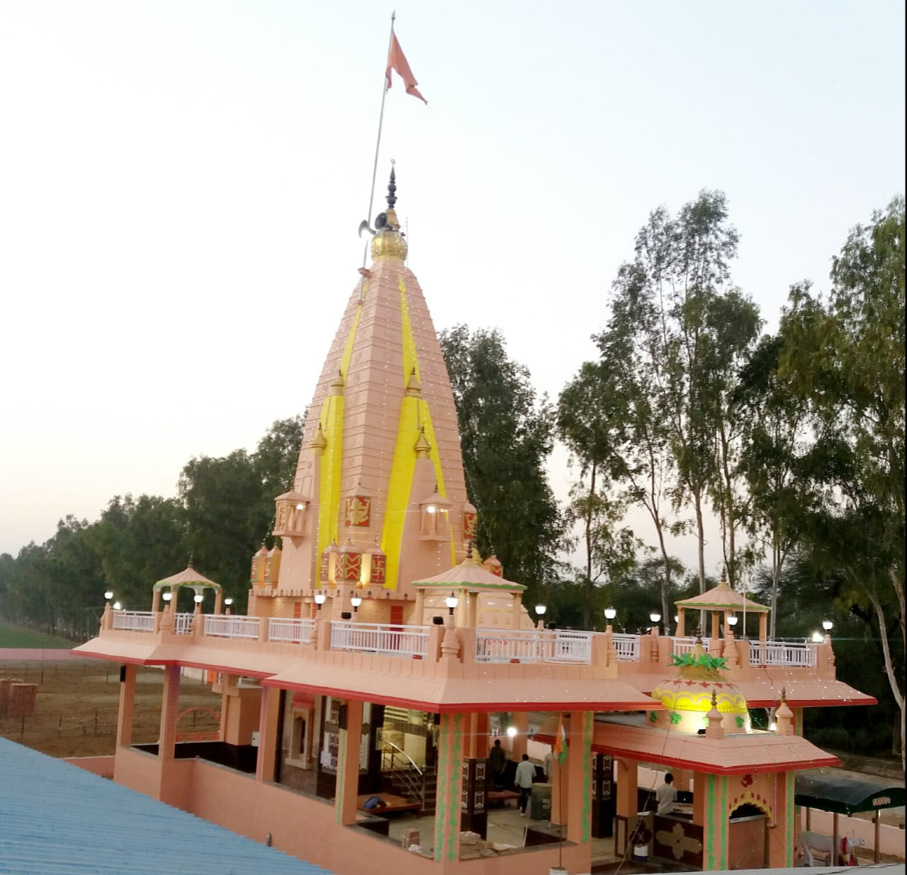 श्री कृष्ण मन्दिर